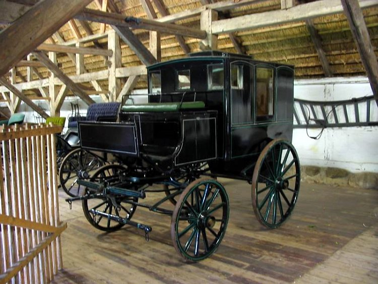 An old ambulance. Picture taken in the open-air museum Hjerl Hede, Denmark, in 2004